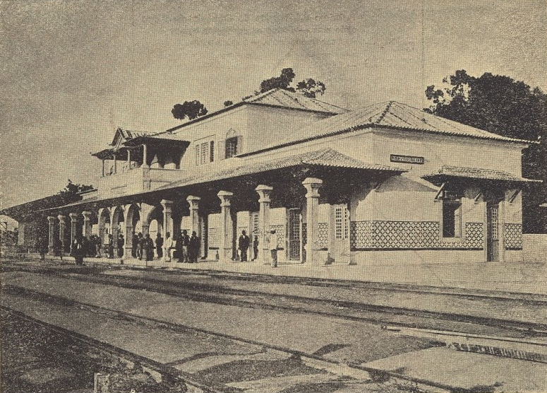 Marvão Beirã Railway Station, in the Cáceres Branch Line, in Portugal. This photograph was taken after the expansion works, finished in 1926. This image was originally published in the Gazeta dos Caminhos de Ferro No. 1353, of the 1st May 1944, and scanned by the Hemeroteca Municipal de Lisboa.